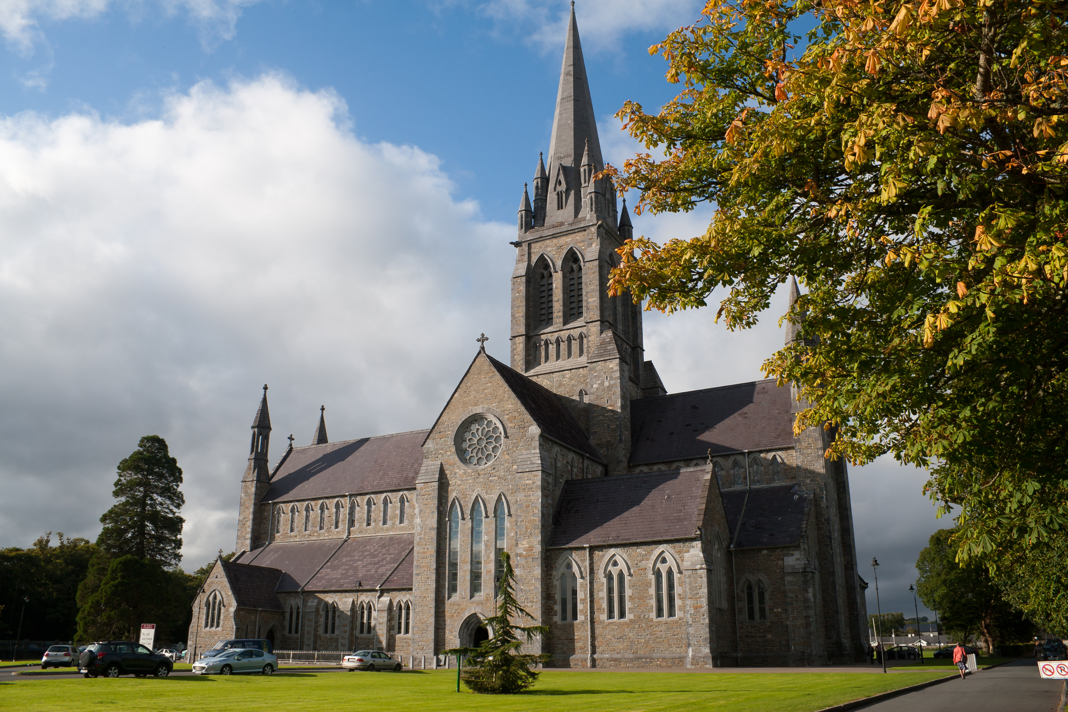 South view of Killarney Cathedral.